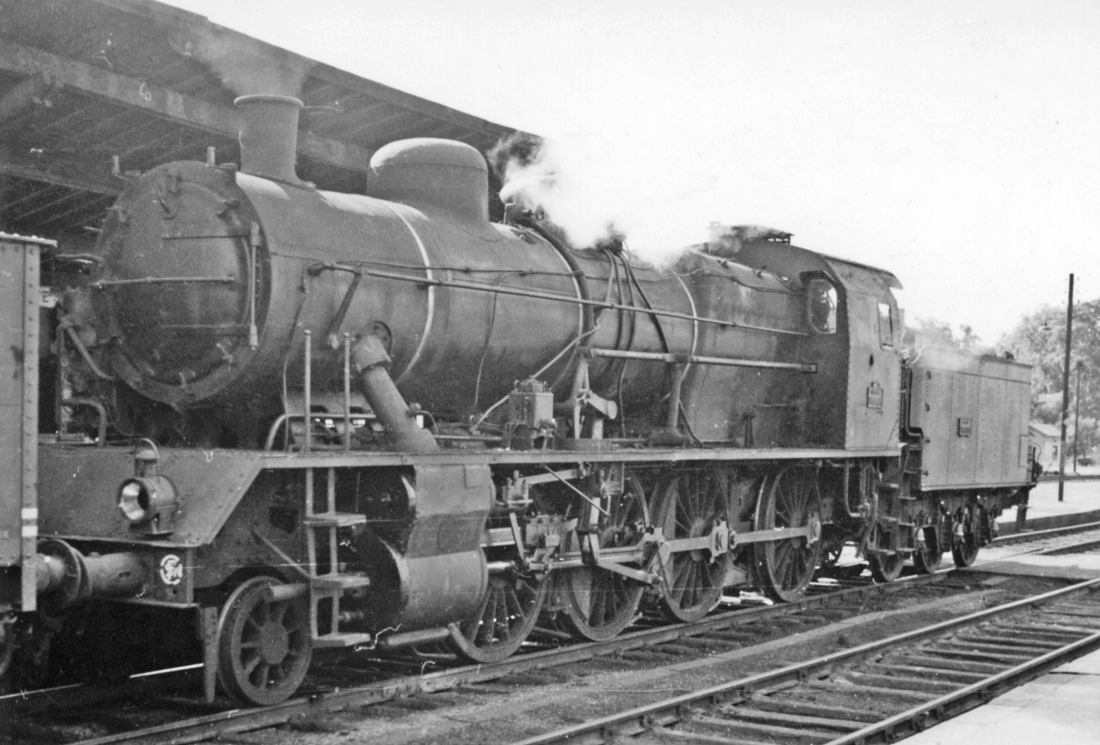 SNCF 2-8-0 at Besançon-Viotte (Doubs), 1958